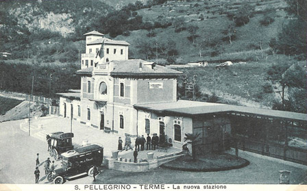 San Pellegrino Terme railway station